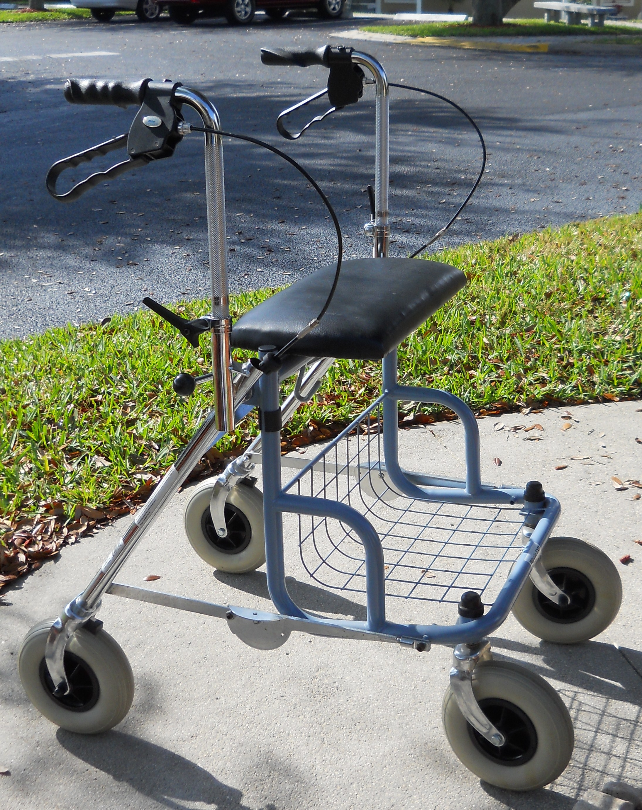 Winnie Walker EXP Steel Bariatric Rollator